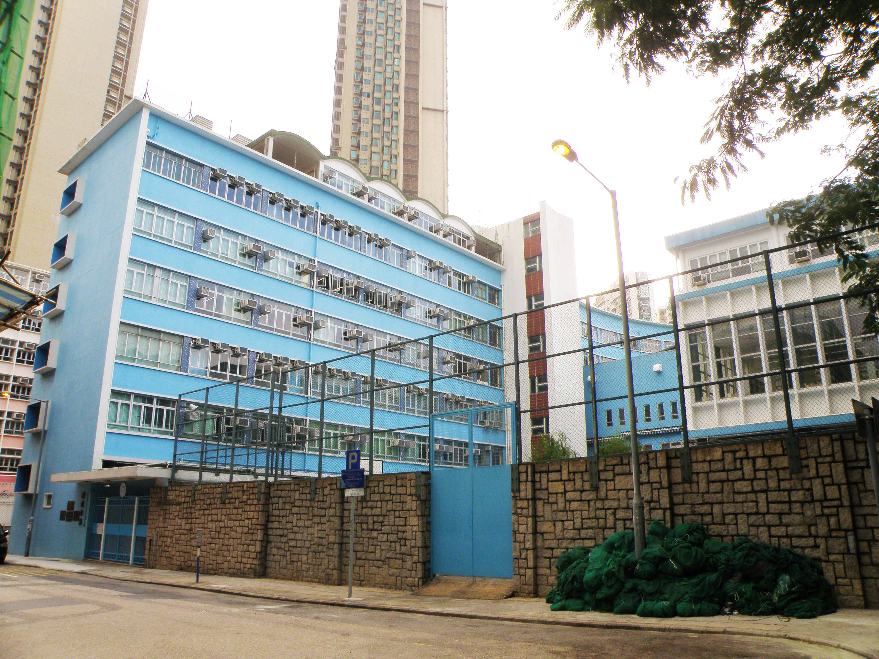 New Asia Middle School in Ma Tau Wai, Hong Kong.